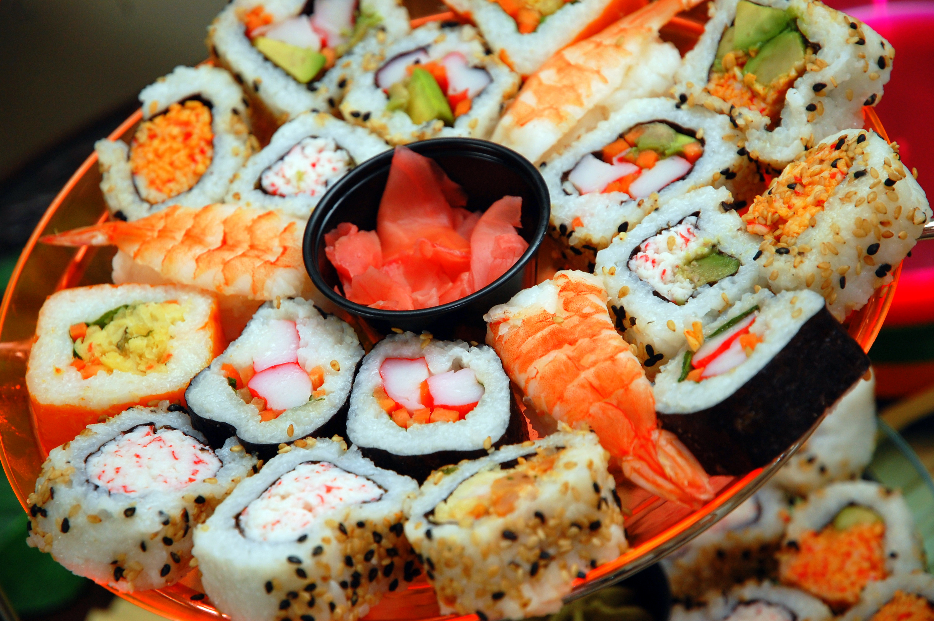 Trust me: it's all vegetarian or cooked.